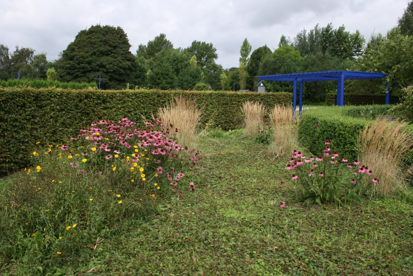 One of the theme gardens at Valbyparken is this perennial garden.